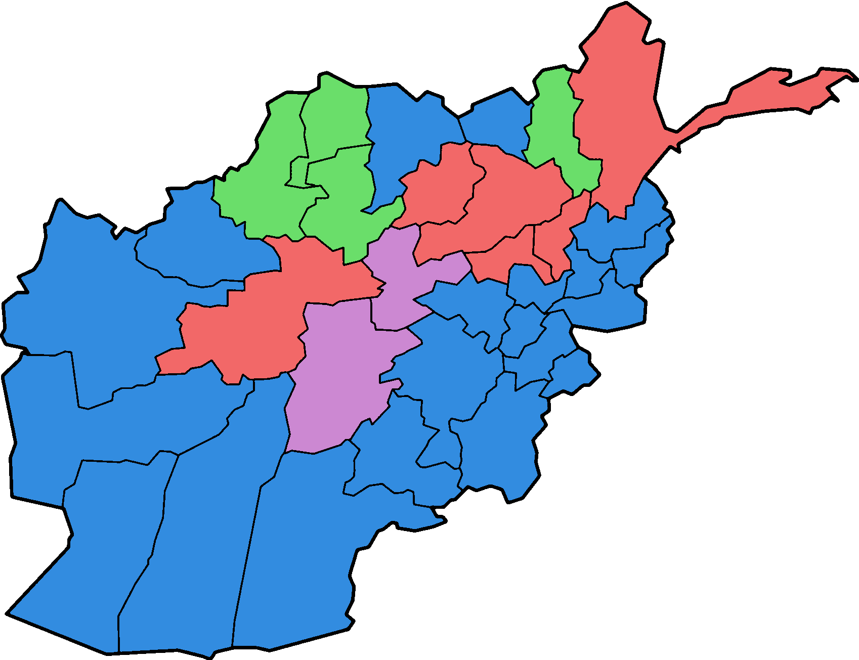 Map showing the results of the 2004 Afghan election.